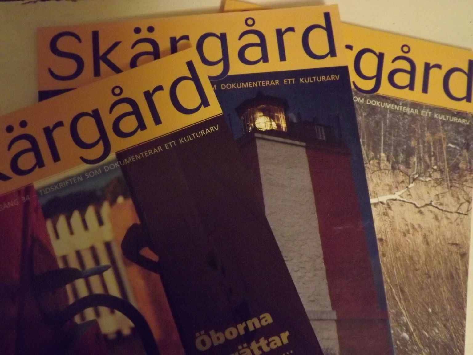 Issues of the magazine Skärgård. Layout of the magazines themselves Peter Siegfrids. Photos Pia Prost, Håkan Eklund, Håkan Eklund.